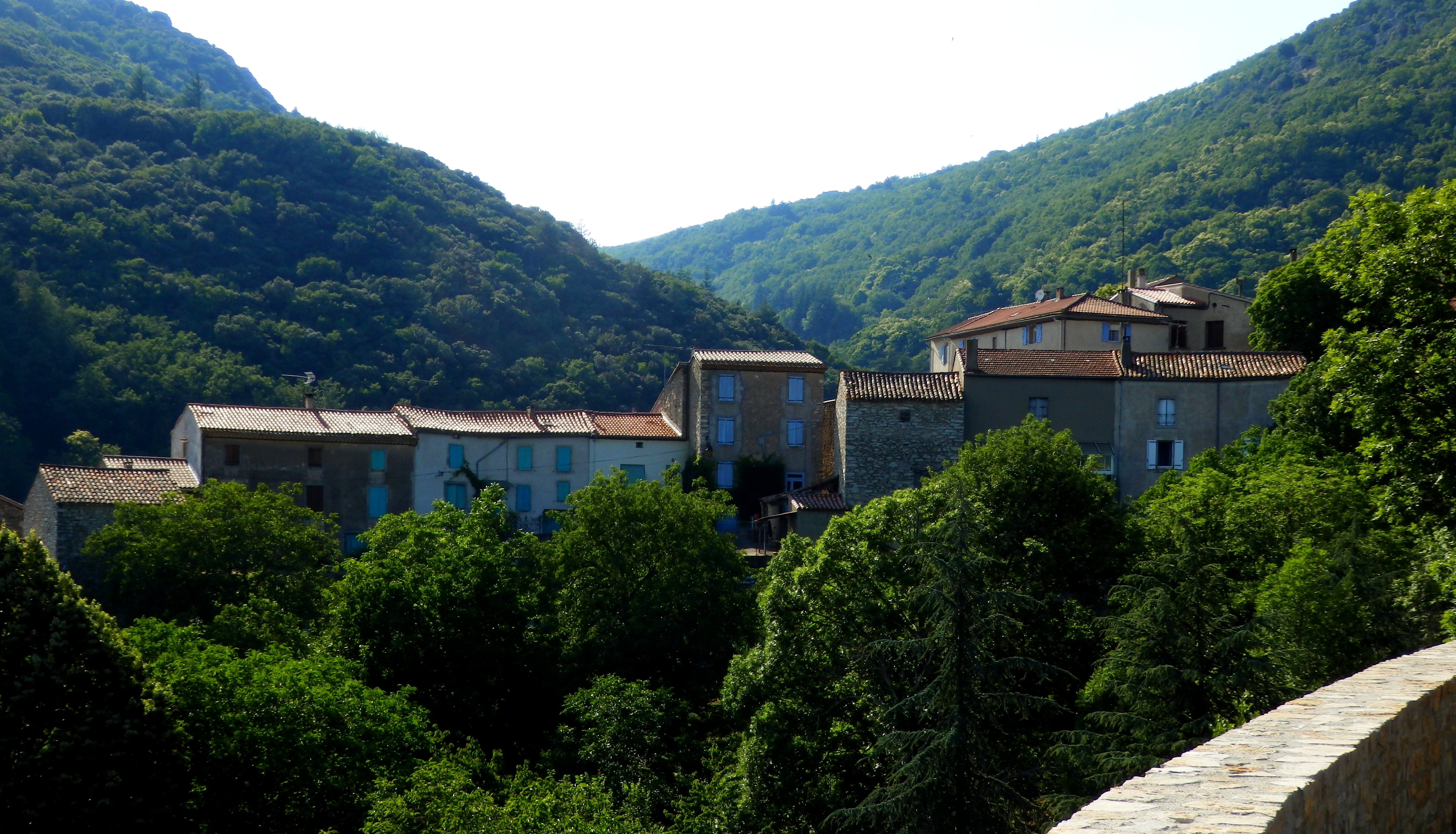 View of Cassagnoles, Hérault, France, in June 2018